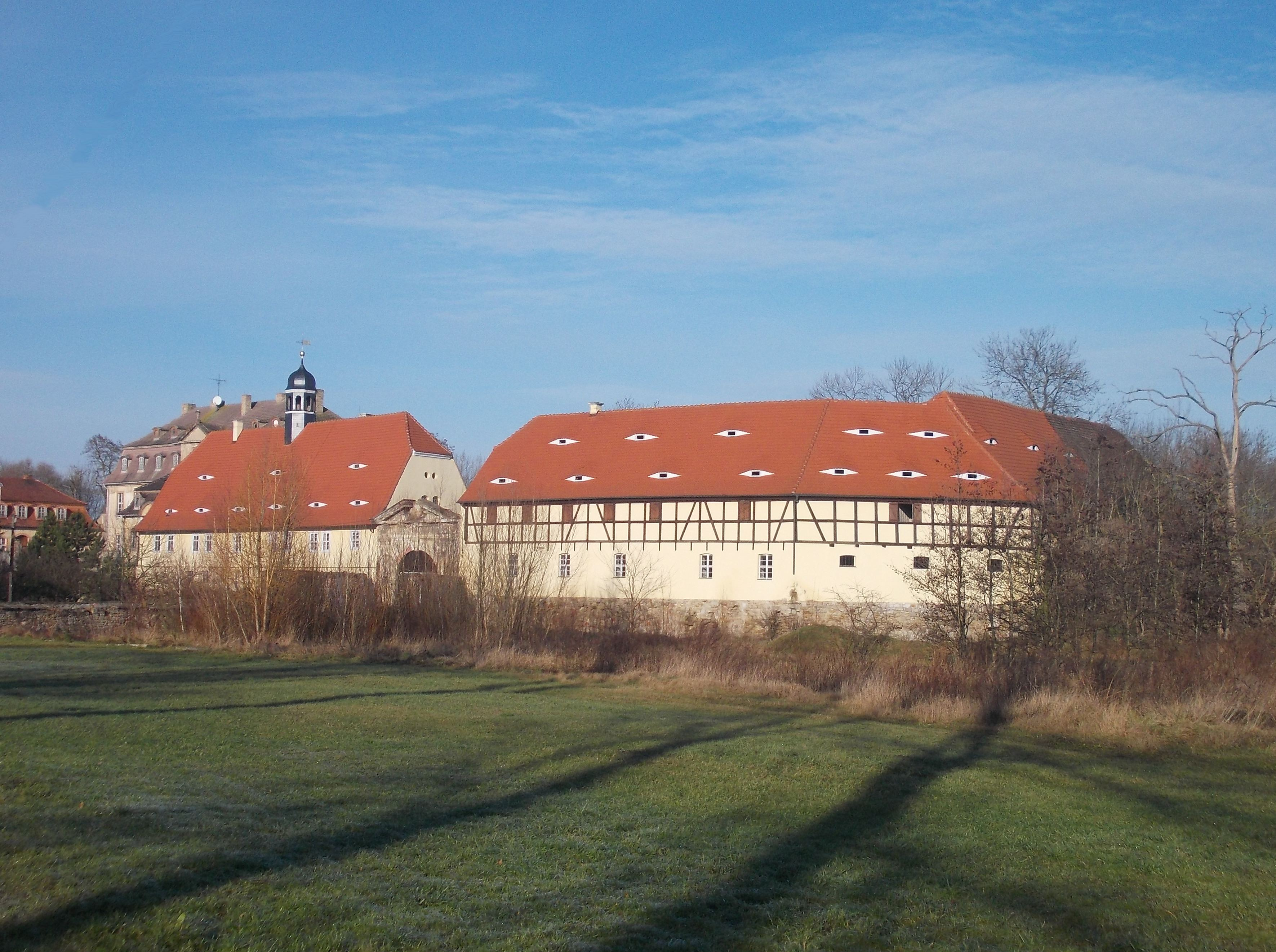 Bündorf Castle (Schkopau, district: Saalekreis, Saxony-Anhalt)